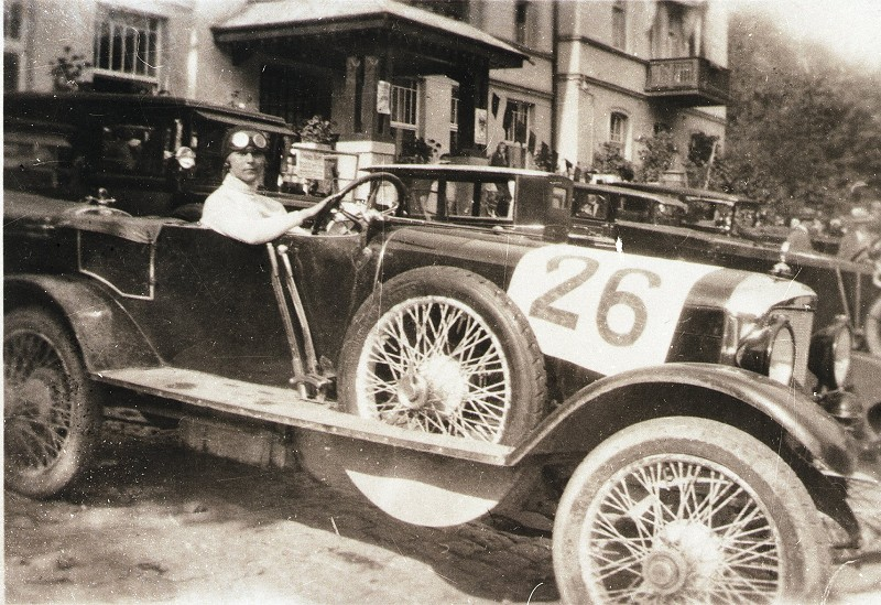 Ilse Beckmann on Beckmann SL 40 (1925)